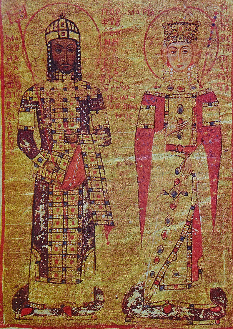 Manouel I Komnenos and his second wife Maria of Antioch